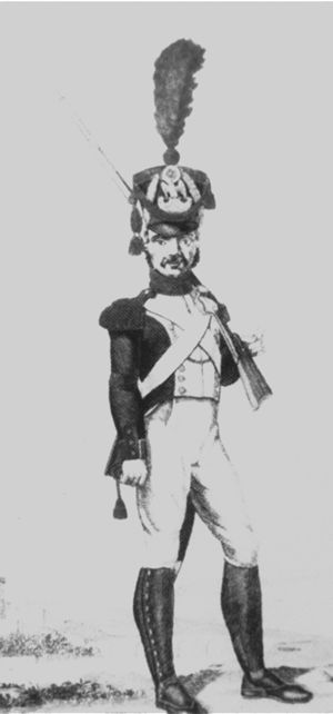 Grenadier of the Grande Armée 1812 Source:Napoleon, His Army and Enemies.